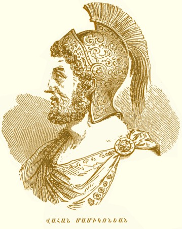 Vahan Mamikonyan